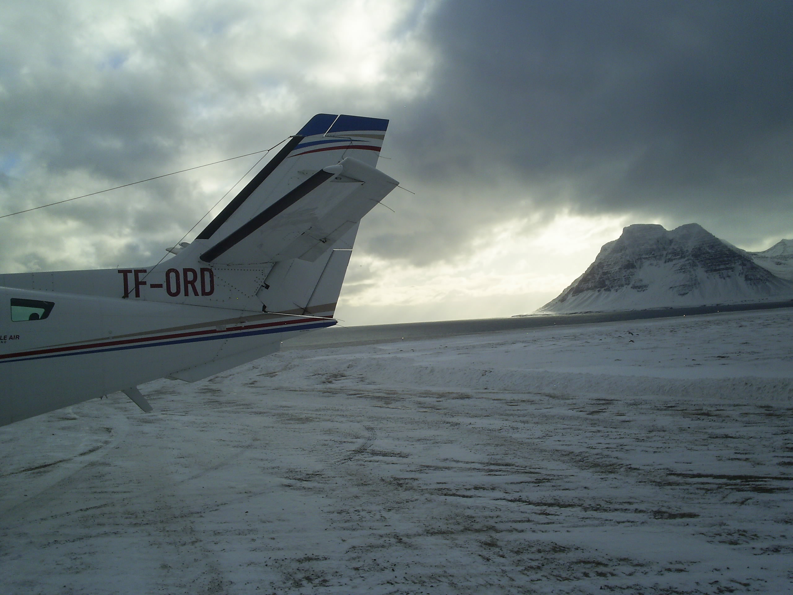 Gjögur airport with Flugfélag Ernir landing (BIGJ)